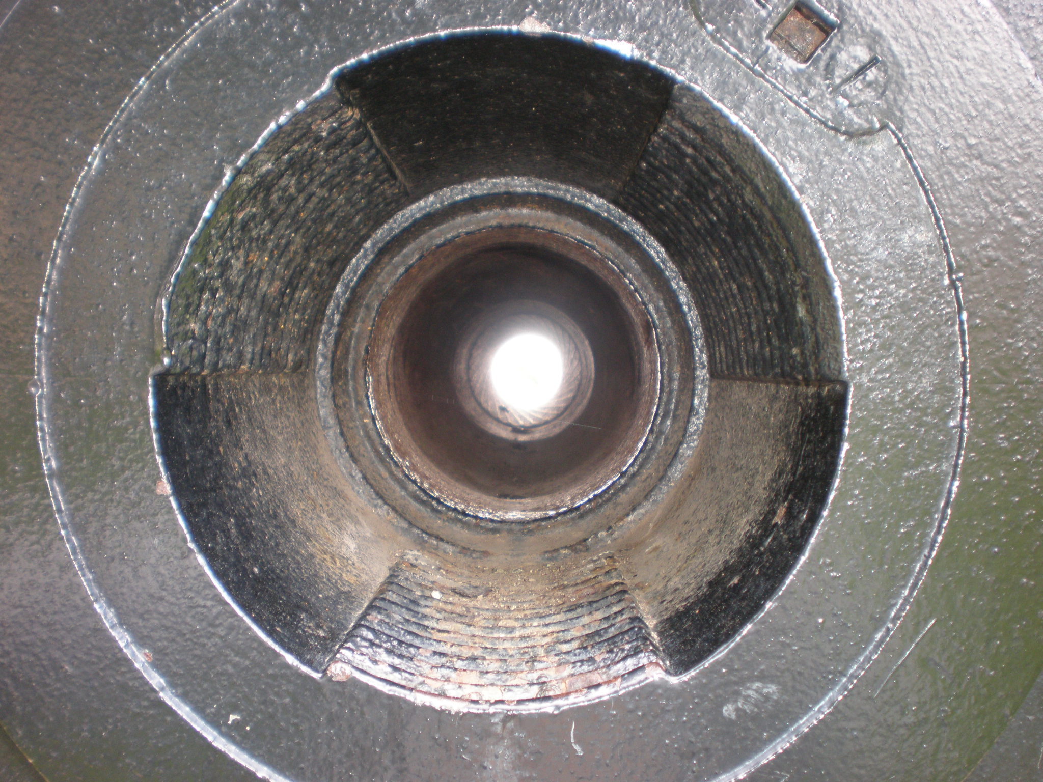 The interior of the barrel of an Ordoñez gun originally from a Spanish coastal fort at Subic Bay, Philippines, which was later captured by Filipino forces. The gun was reportedly destroyed during an American attack on Subic Bay in September 1899, but some historians believe the damage was due to a shell explosion. William Randolph Hearst acquired this gun and presented it to the City of San Francisco where it was on display at Columbia Square Park in 1973 before being moved to the Main Post of the Presidio of San Francisco. See also File:Presidio of SF Ordoñez gun side.JPG.